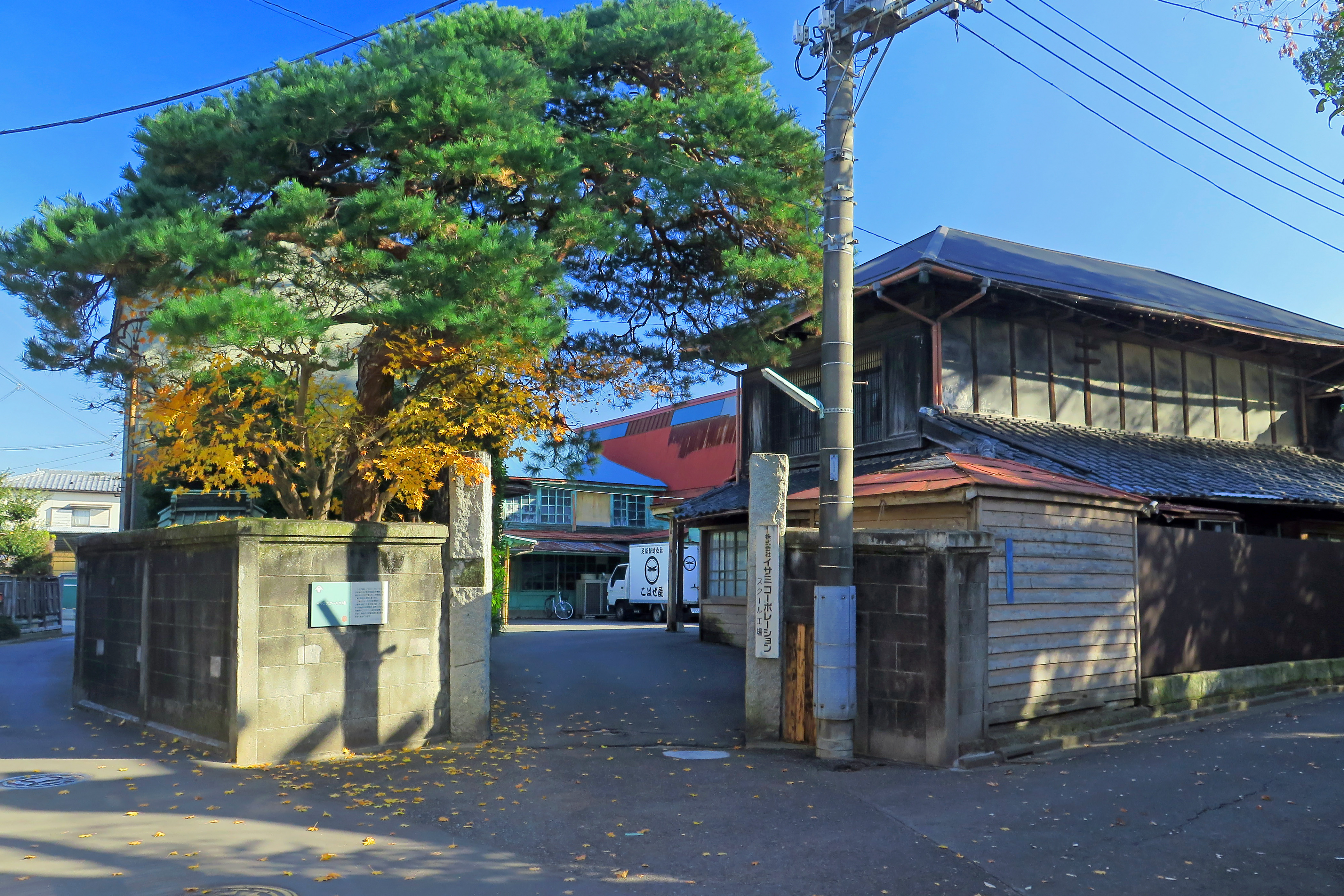 Isami Corporation School Factory in Gyoda, Saitama prefecture, Japan